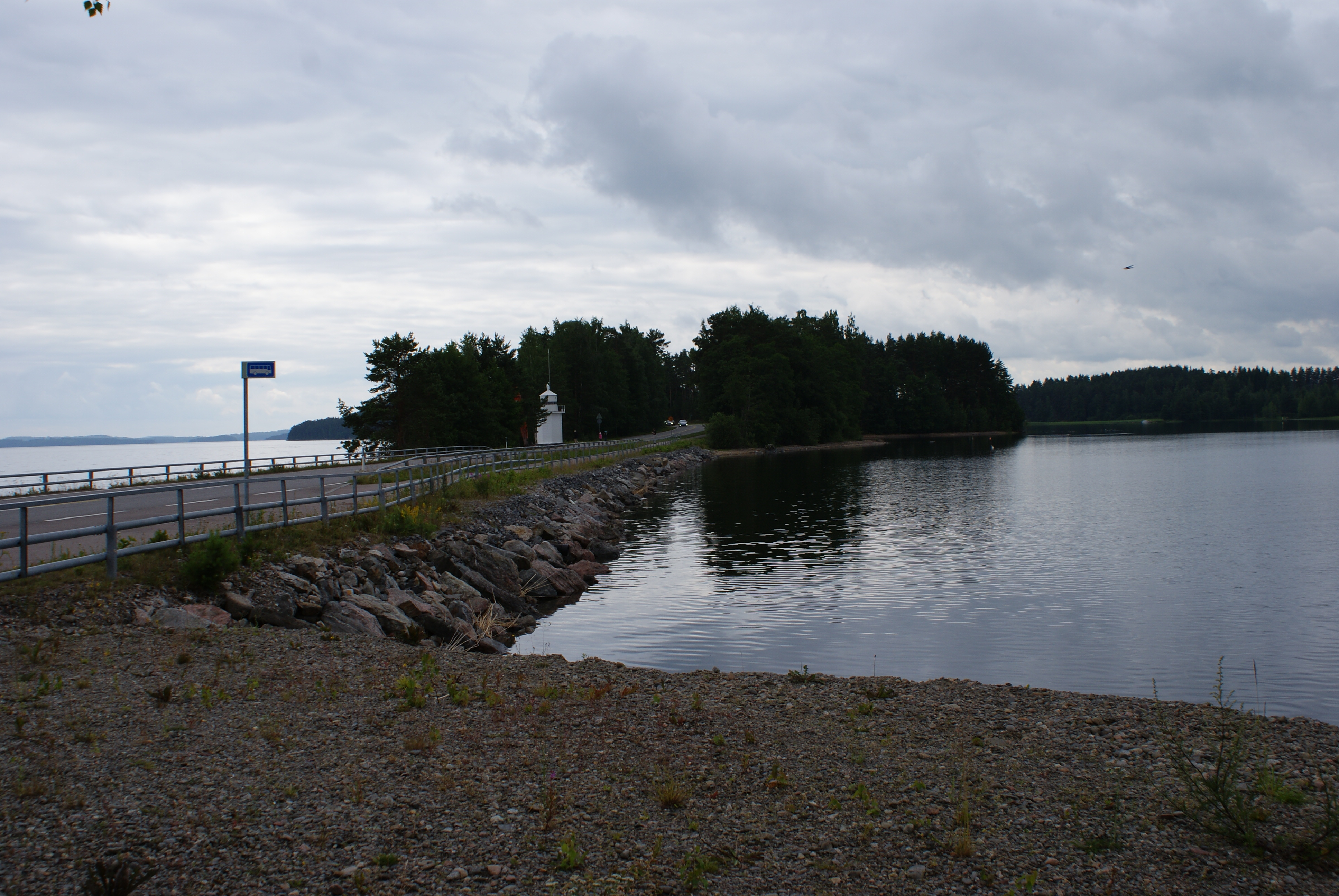 Regional road 314 on Pulkkilanharju esker in Asikkala, Finland.